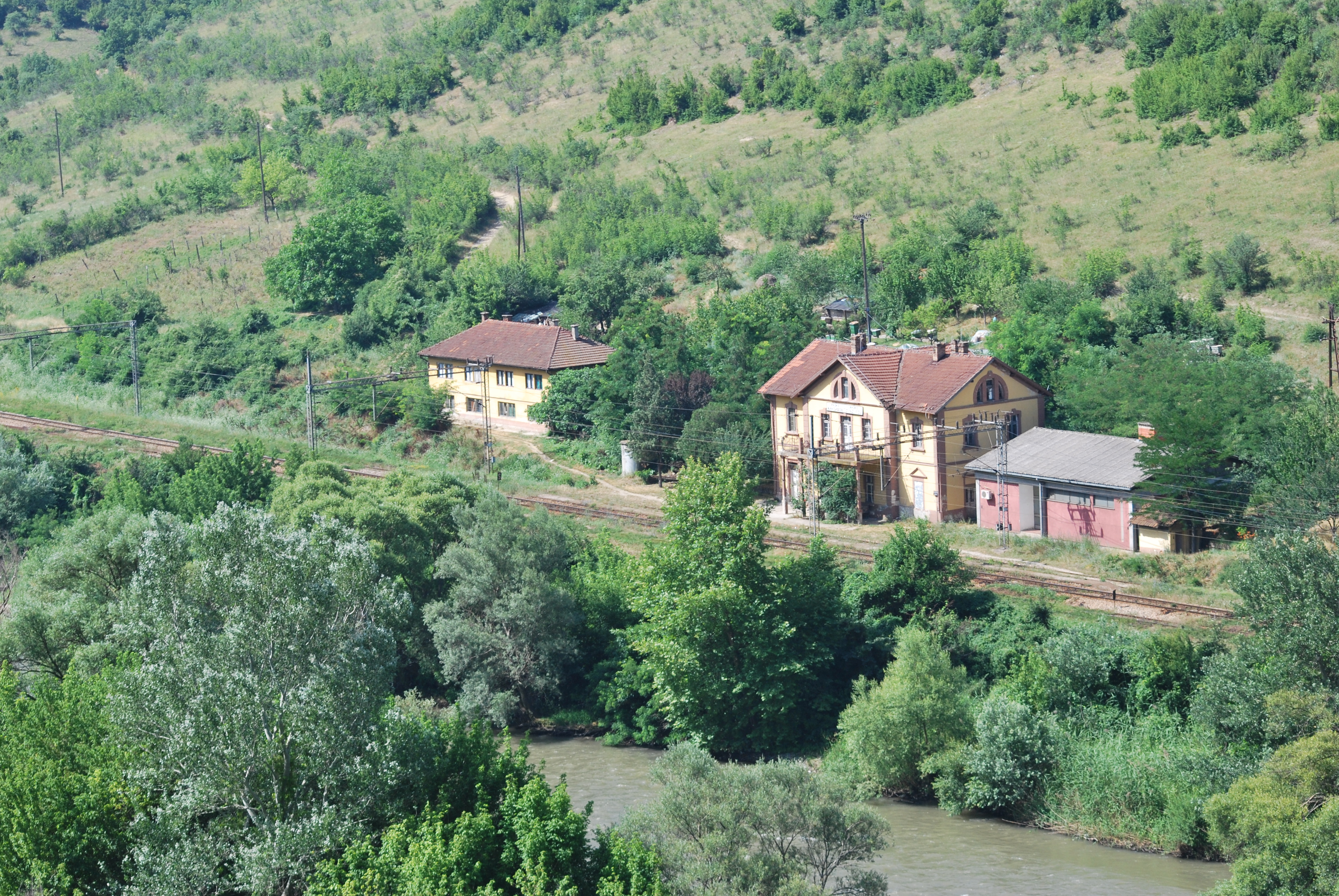 Rajko Žinzifov train station, Macеdonia.